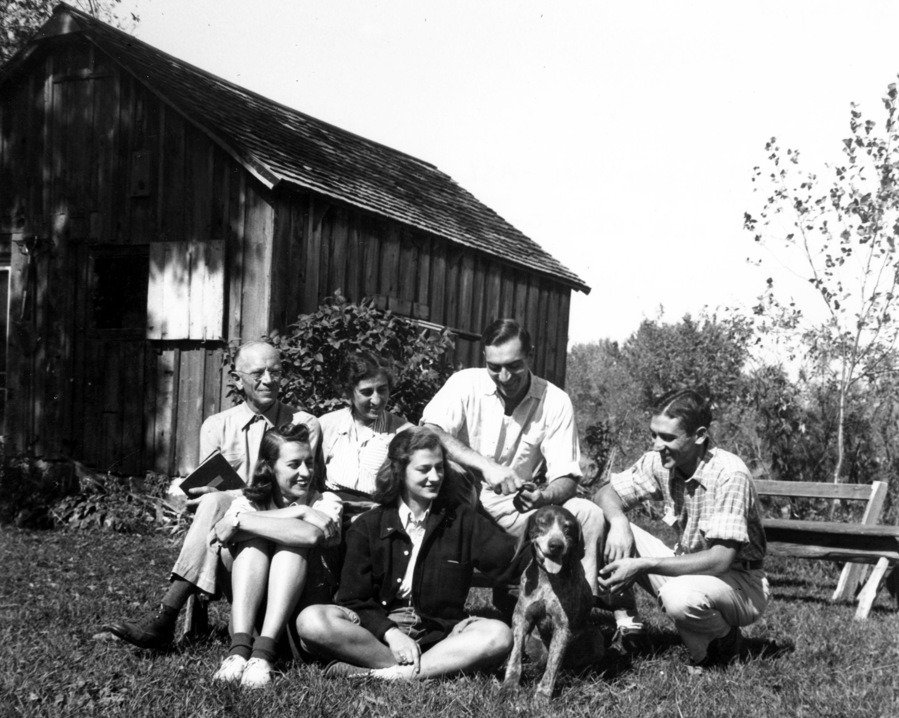 Aldo and Estella Leopold with their five children. The family restored the land and and the old chicken coop. The Leopold Farm and Shack are now on the National Register of Historic Places.